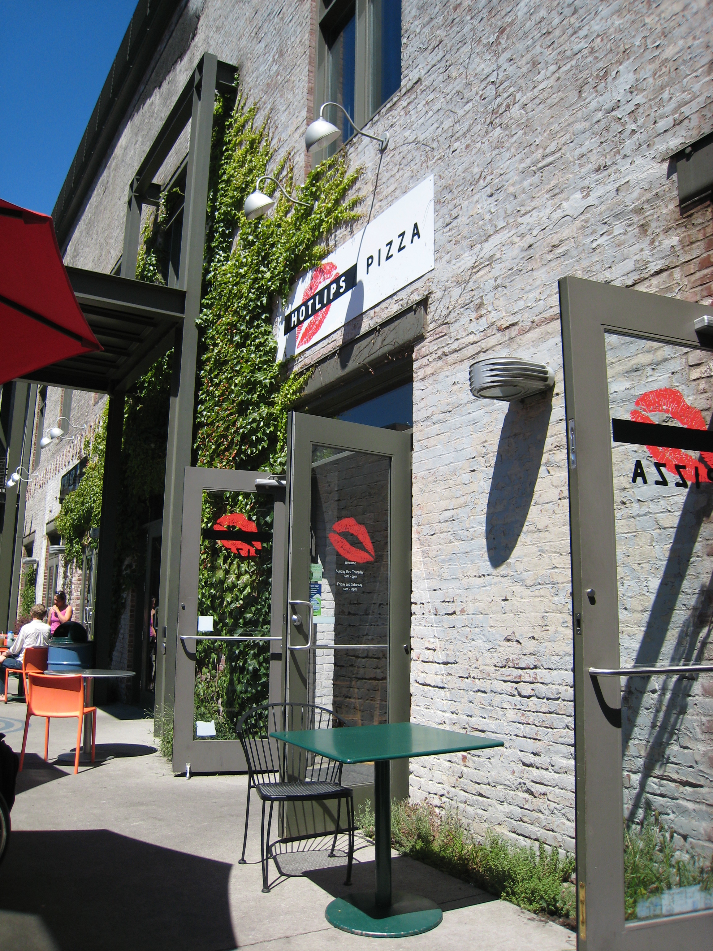 This is a photo of the Pearl District, Portland, Oregon, location of Hot Lips Pizza.